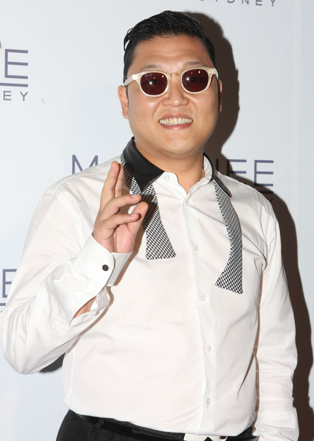 Psy Gangnam Style performs at Marquee, The Star, Sydney, Australia in 2012.